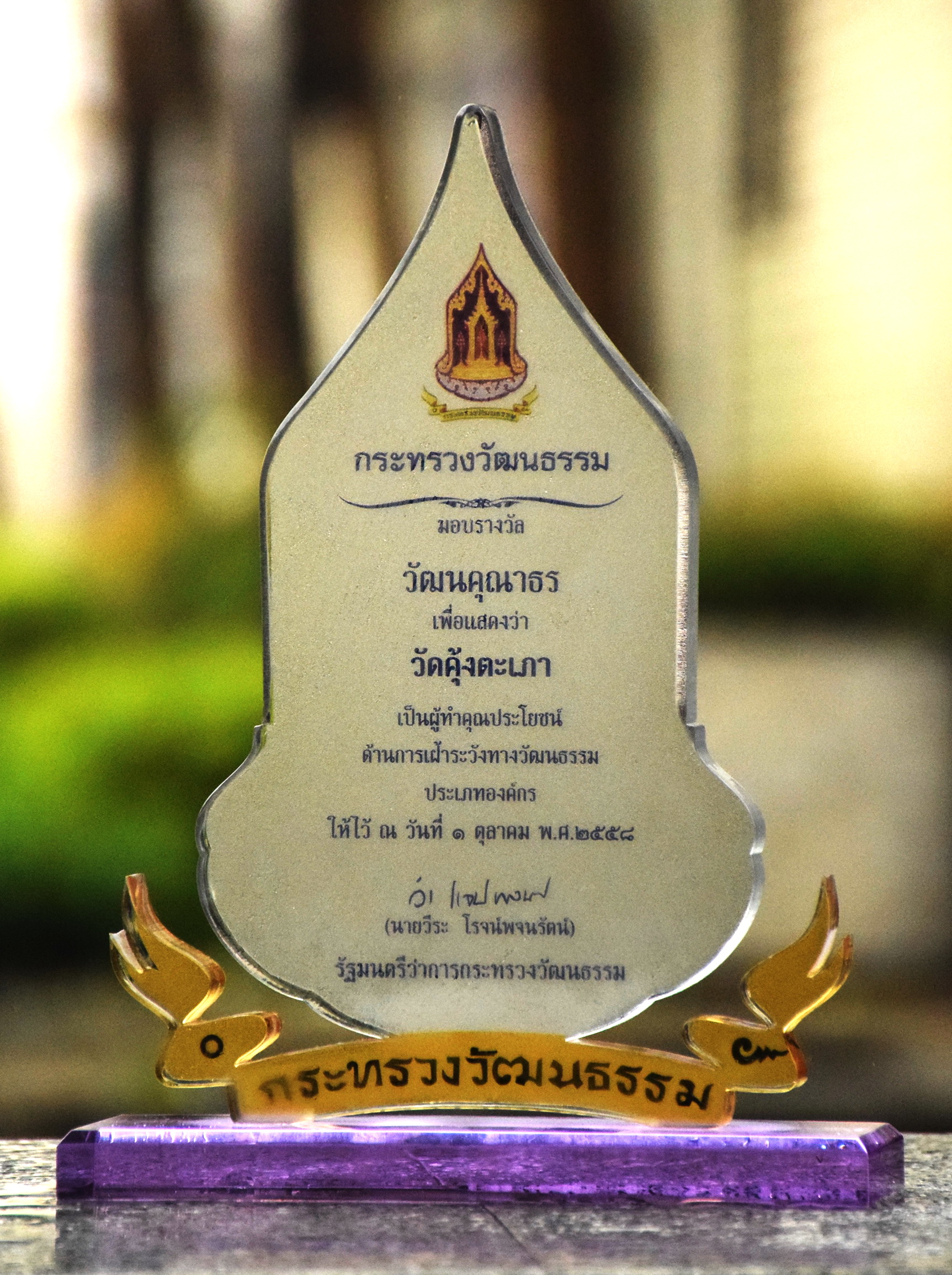 . at Thailand Cultural Centre. Date2015SourceOwn workAuthor ผู้สร้างสรรค์ผลงาน/ส่งข้อมูลเก็บในคลังข้อมูลเสรีวิกิมีเดียคอมมอนส์ - เทวประภาส มากคล้าย Permission (Reusing this file)